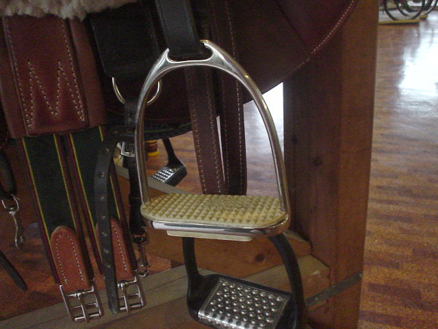 Stirrups used in equestrianism